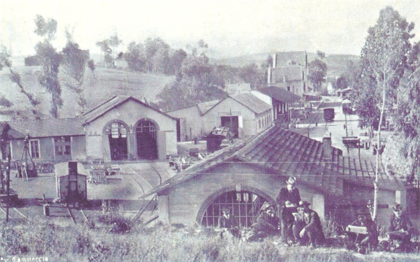 Postcard of Mirandela Station, on the Linha do Tua (Tua Railway), in Portugal. This photograph was taken on the final years of the XIX Century.